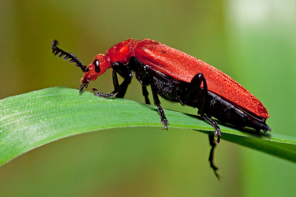 Cardinal Beetle